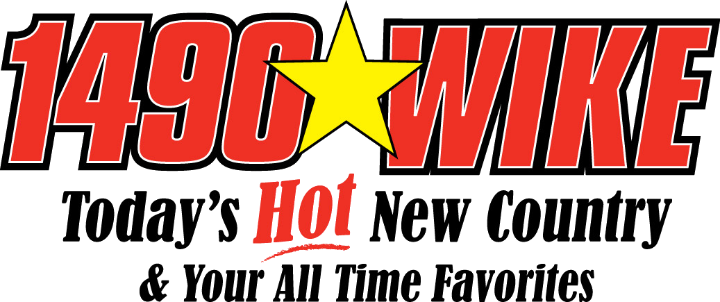 The Logo of WIKE, as of January 1, 2013 Category:Radio station logos History of Image:WIKE logo.jpg 2008-07-18T14:55:43Z Rtphokie